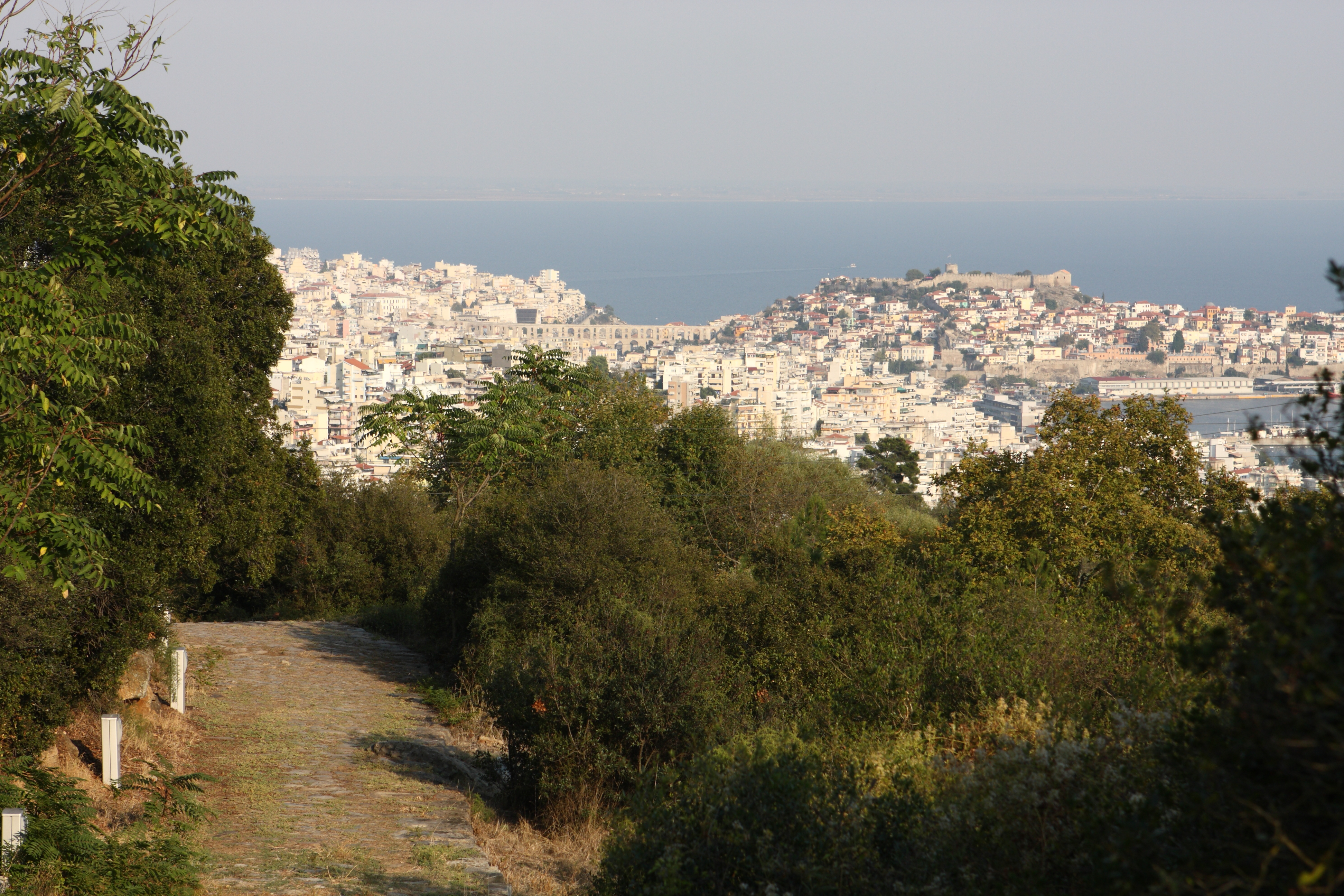 Ancient Via Egnatia in Kavala